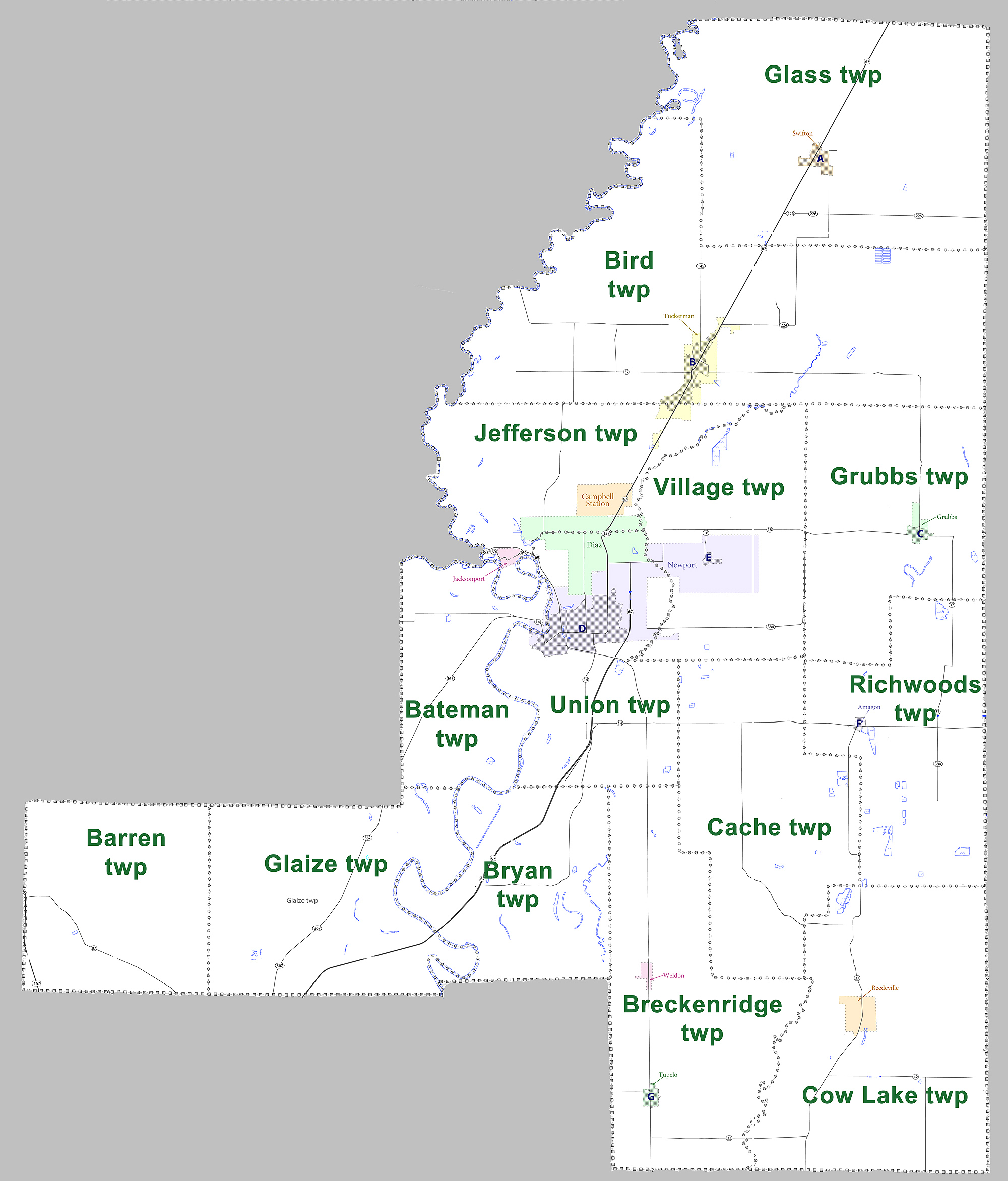 Large map showing townships in Jackson County, Arkansas. Modified from US census map (for 2010 census) for Jackson County, Arkansas